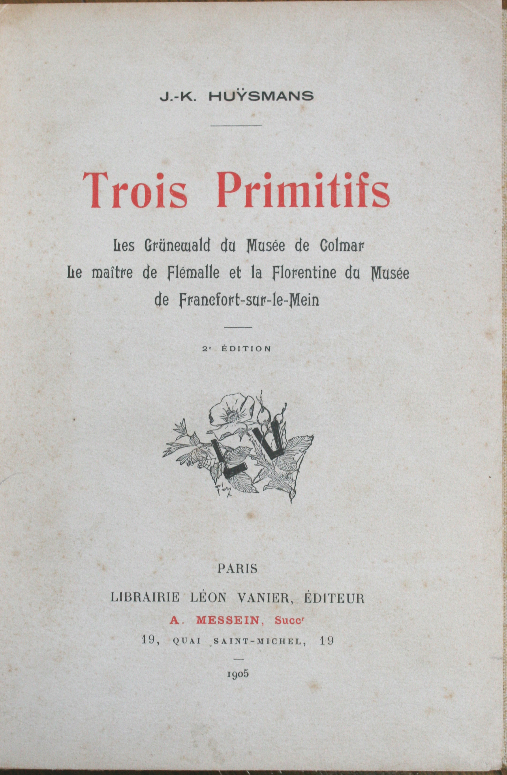 Cover of Trois églises 1905 by J.K. Huysmans